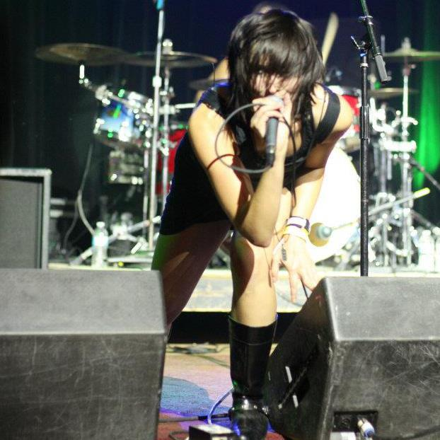 Photo of singer/songwriter Niki Barr performing in concert.